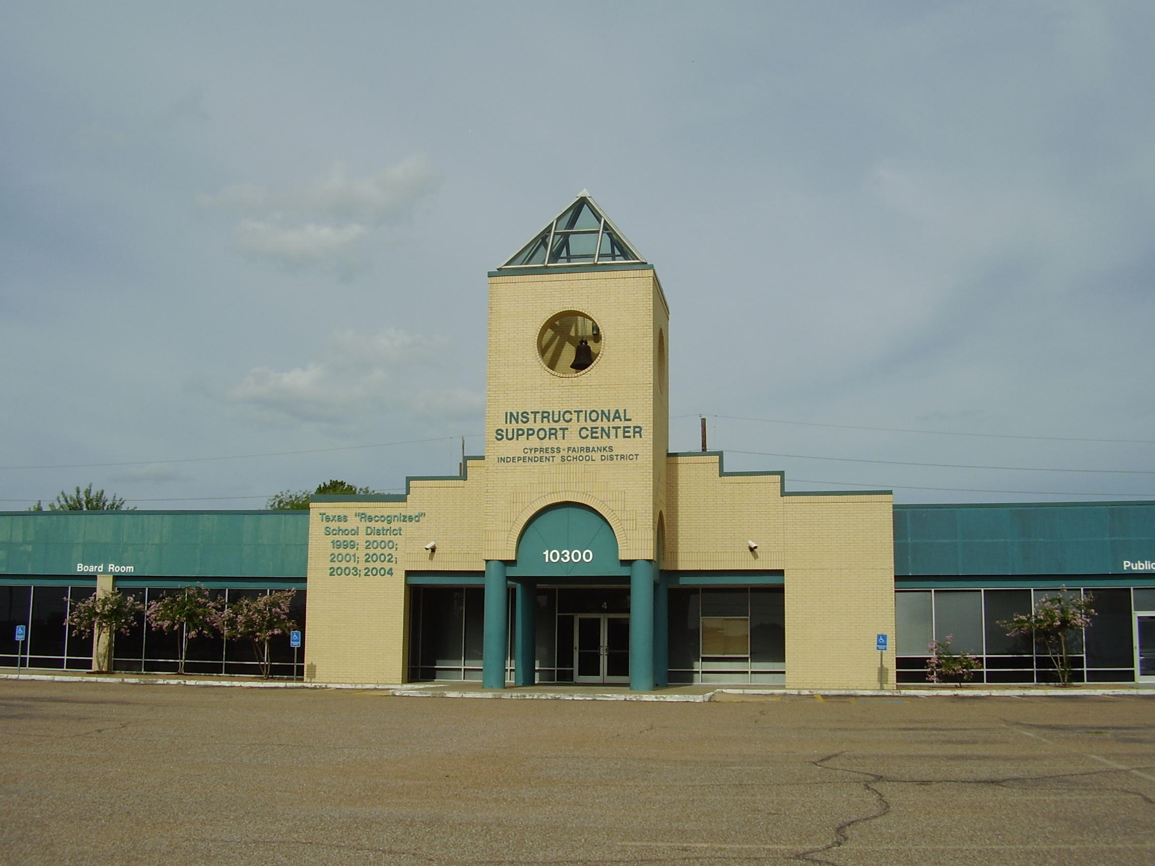 Cypress-Fairbanks Independent School District headquarters